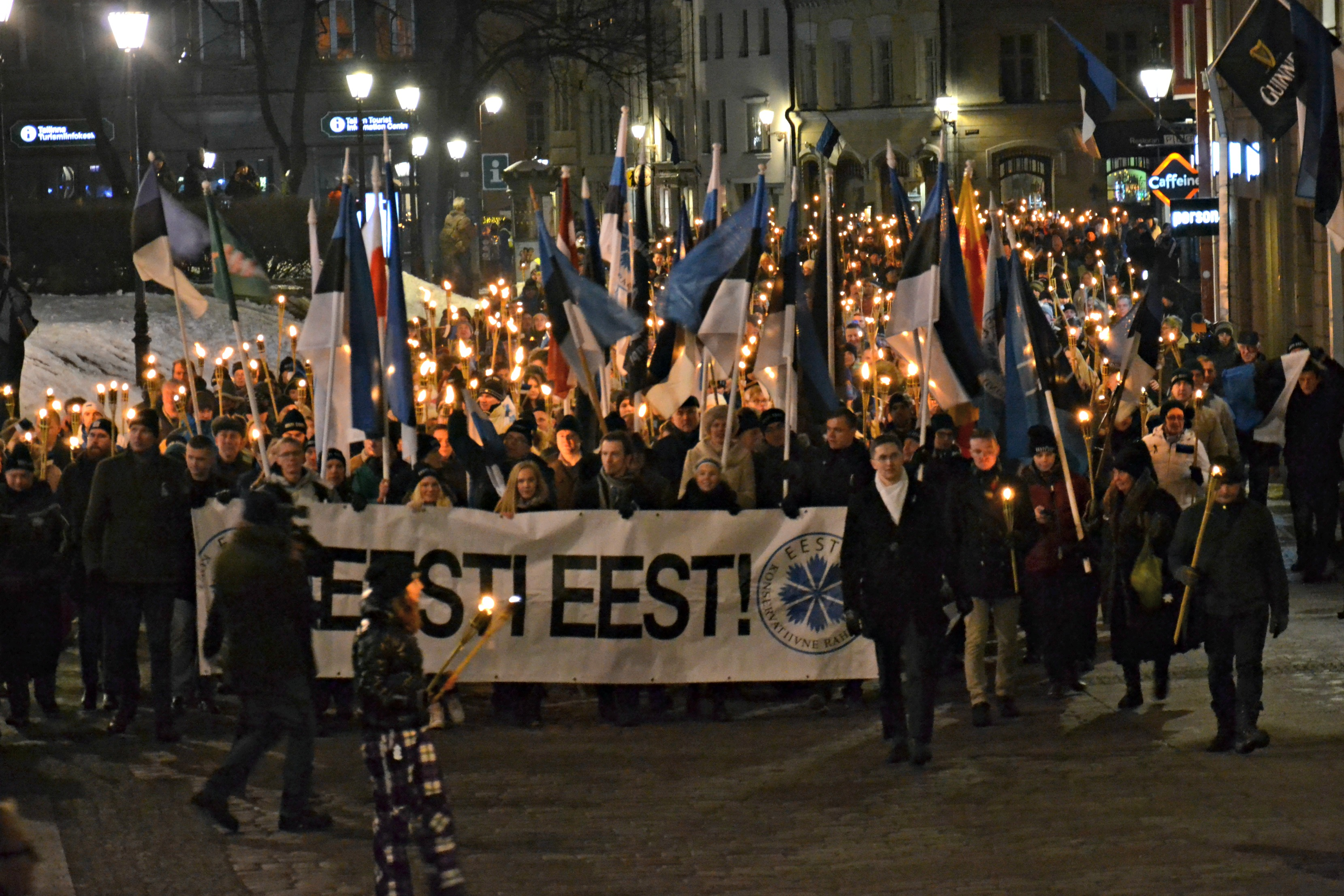 Estonian nationalists on the annual march through the Old Town of Tallinn